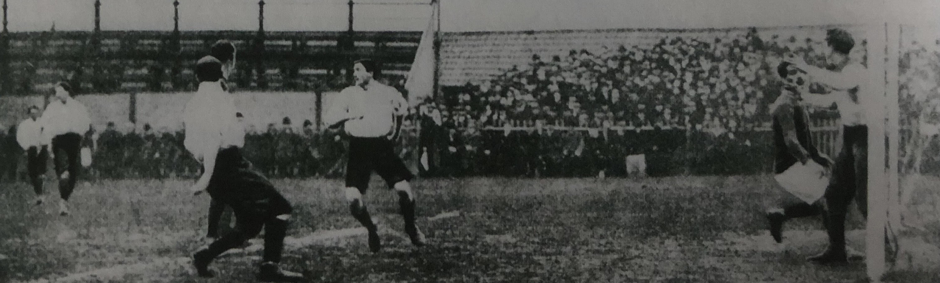 Millwall Athletic playing Preston North End at North Greenwich in the FA Cup, 1903